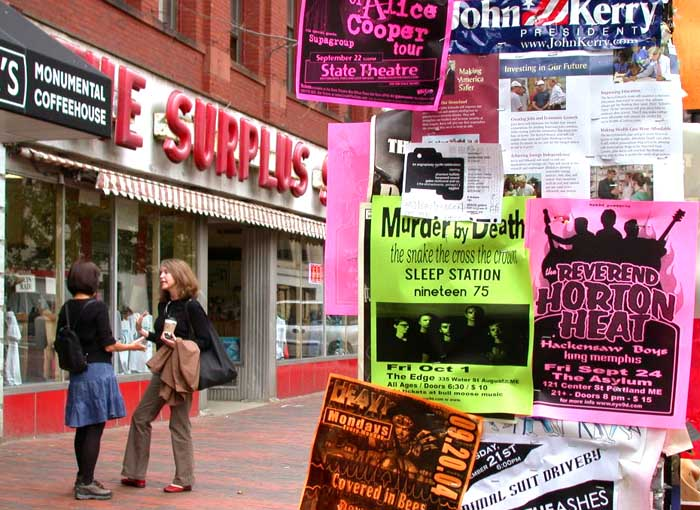 Two women converse in front of a coffeeshop in downtown Portland (taken Sept. 21, 2004)